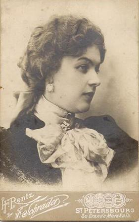 Vjaltseva Anastasya Dmitrievna (1871 - 1913г.г.) the Famous Russian variety singer (mezzo soprano), the performer of gipsy romances, the actress of an operetta. Popularity Вяльцевой in the beginning of XX century was huge, it named " the Seagull of Russian platform " and " the Russian Cinderella ", turned of the simple parlourmaid in one of the richest and known women of Russia. Concerts of the "incomparable" performer of romances always caused a tremendous success, and a plate with its records left in huge circulations. The Photographer's studio " H.Rentz and F.Schrader " St.-Petersburg, Morskaya str., 27